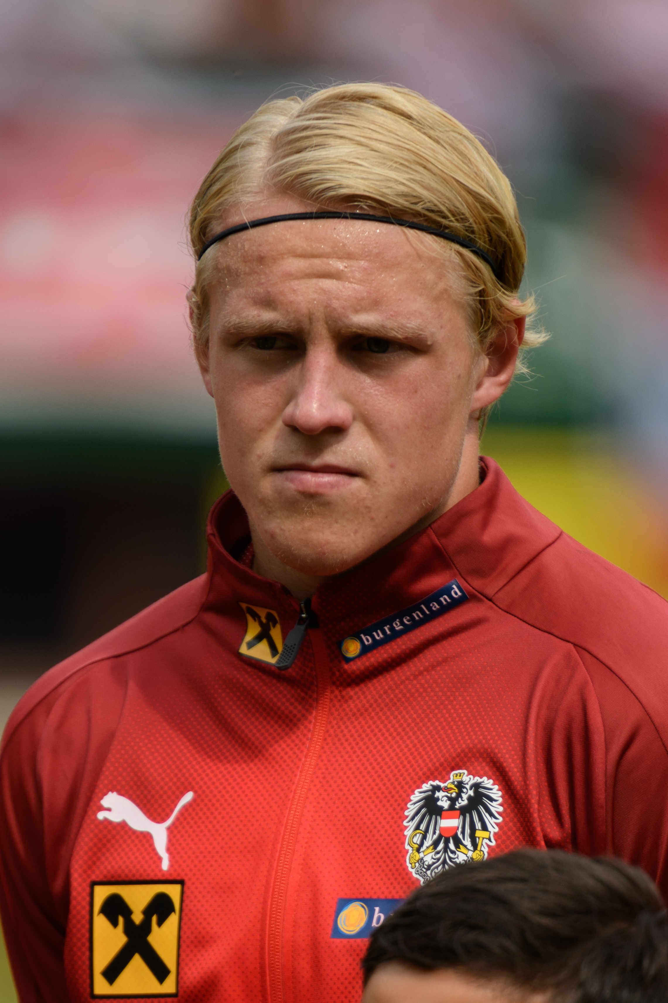 FIFA Friendly Match Austria vs. Brazil 2018/06/10 in Vienna/Ernst-Happel-Stadium. Picture shows Xaver Schlager (AUT)